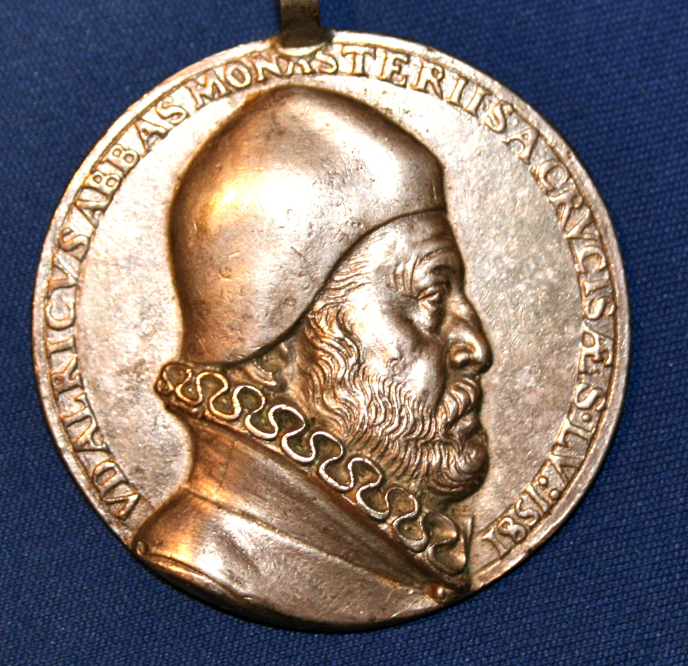 Ulrich Müller was the Abbot of Stift Heiligenkreuz from 1558 to 1584. He is shown here on one side of a medal, the other side features his coat of arms. The medal is kept in the Heiligenkreuz Museum near Vienna.